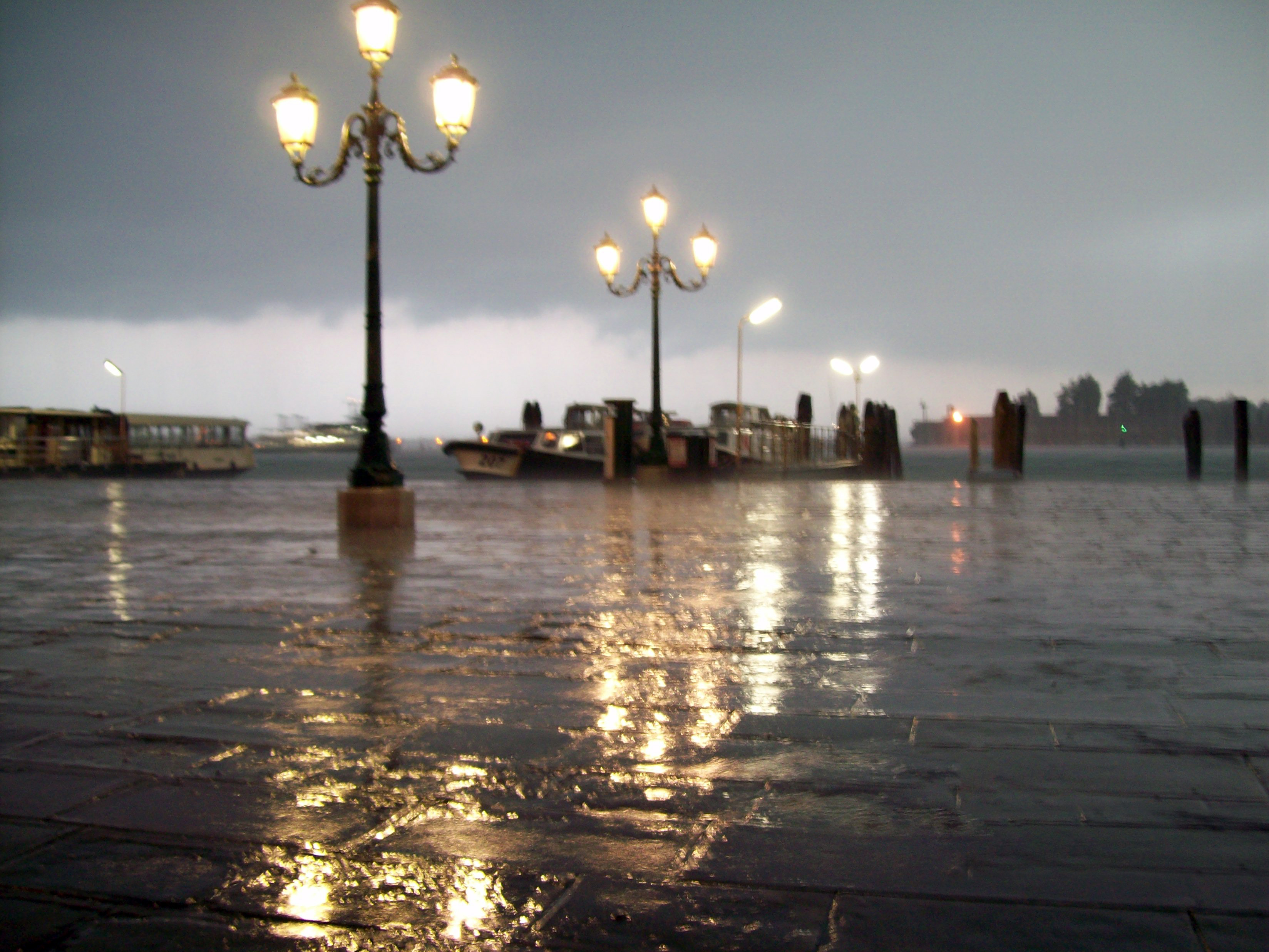 Stormy day in Venice